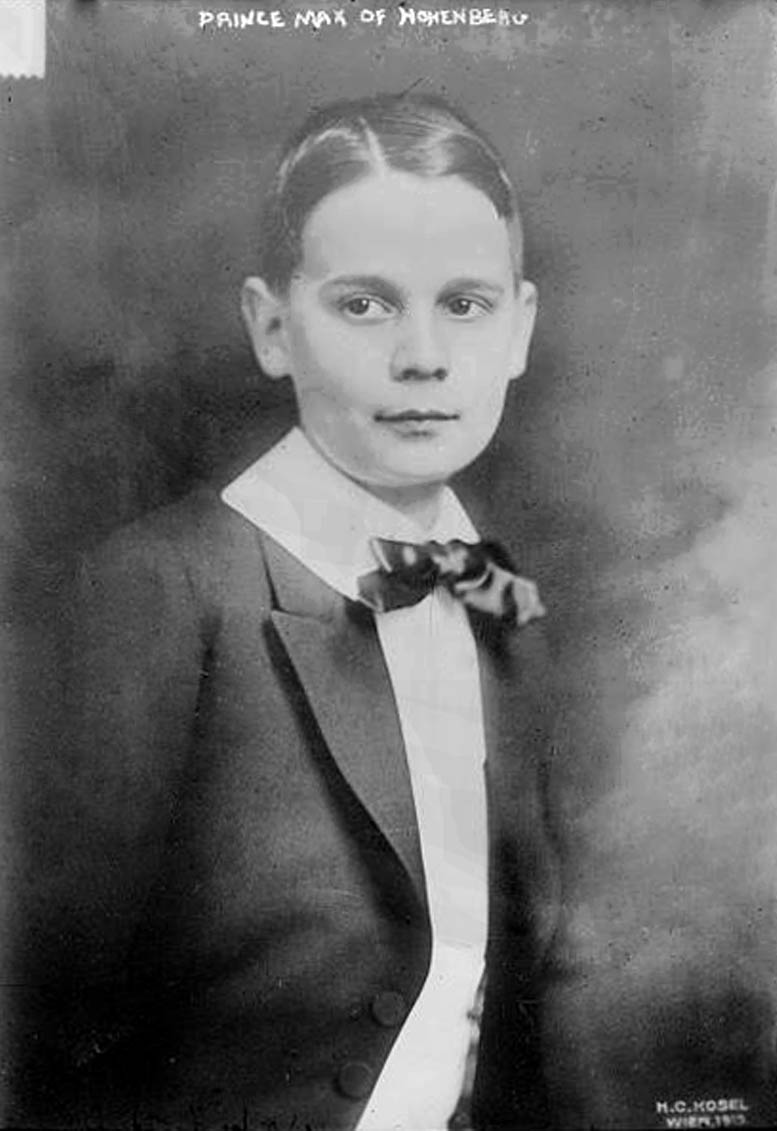 Maximilian, Duke of Hohenberg (1902-1962), was the eldest son of Archduke Franz Ferdinand of Austria. Photo is inscribed top, centre: "Prince Max of Hohenberg", & bottom, right "H.C. Kosel, Wien, 1913."(?)